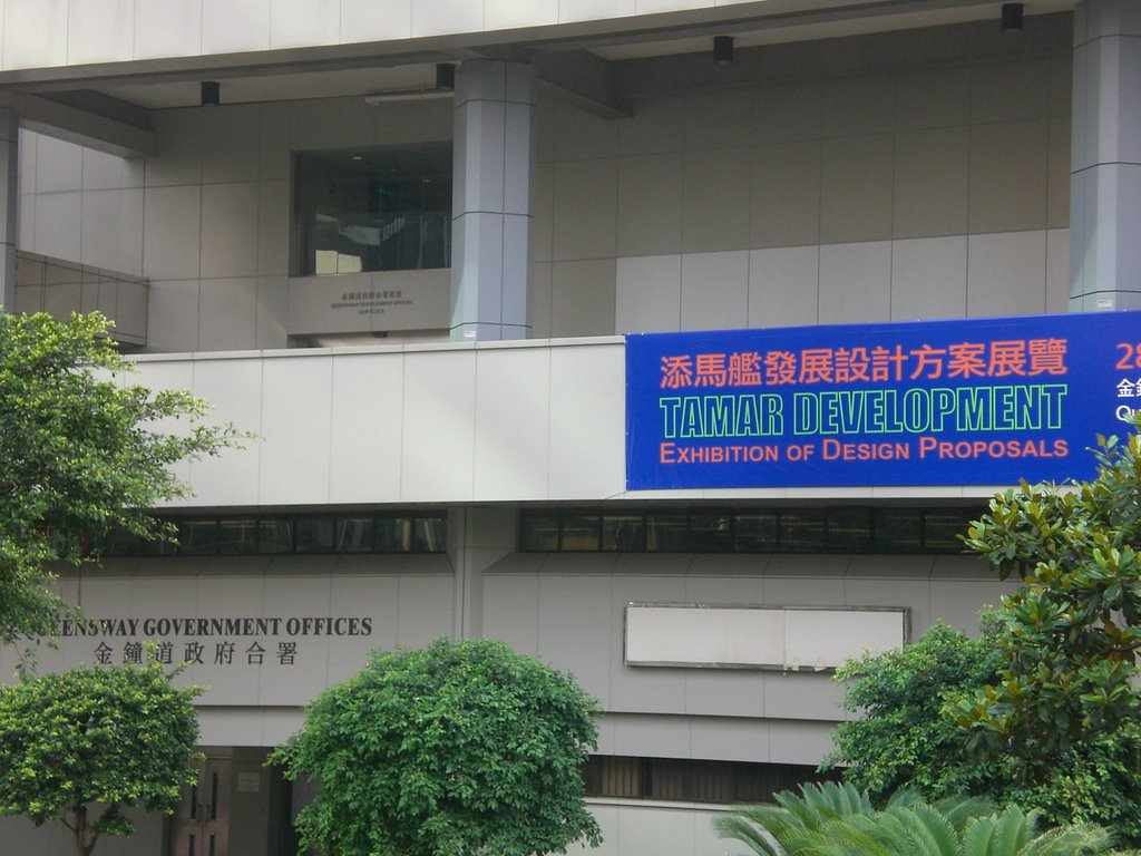 金鐘道政府合署 Queensway Government Offices. Author= SHOLYWOD